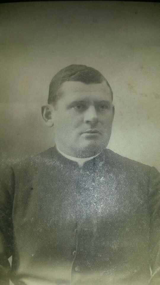 Rev. Jan Czyrek